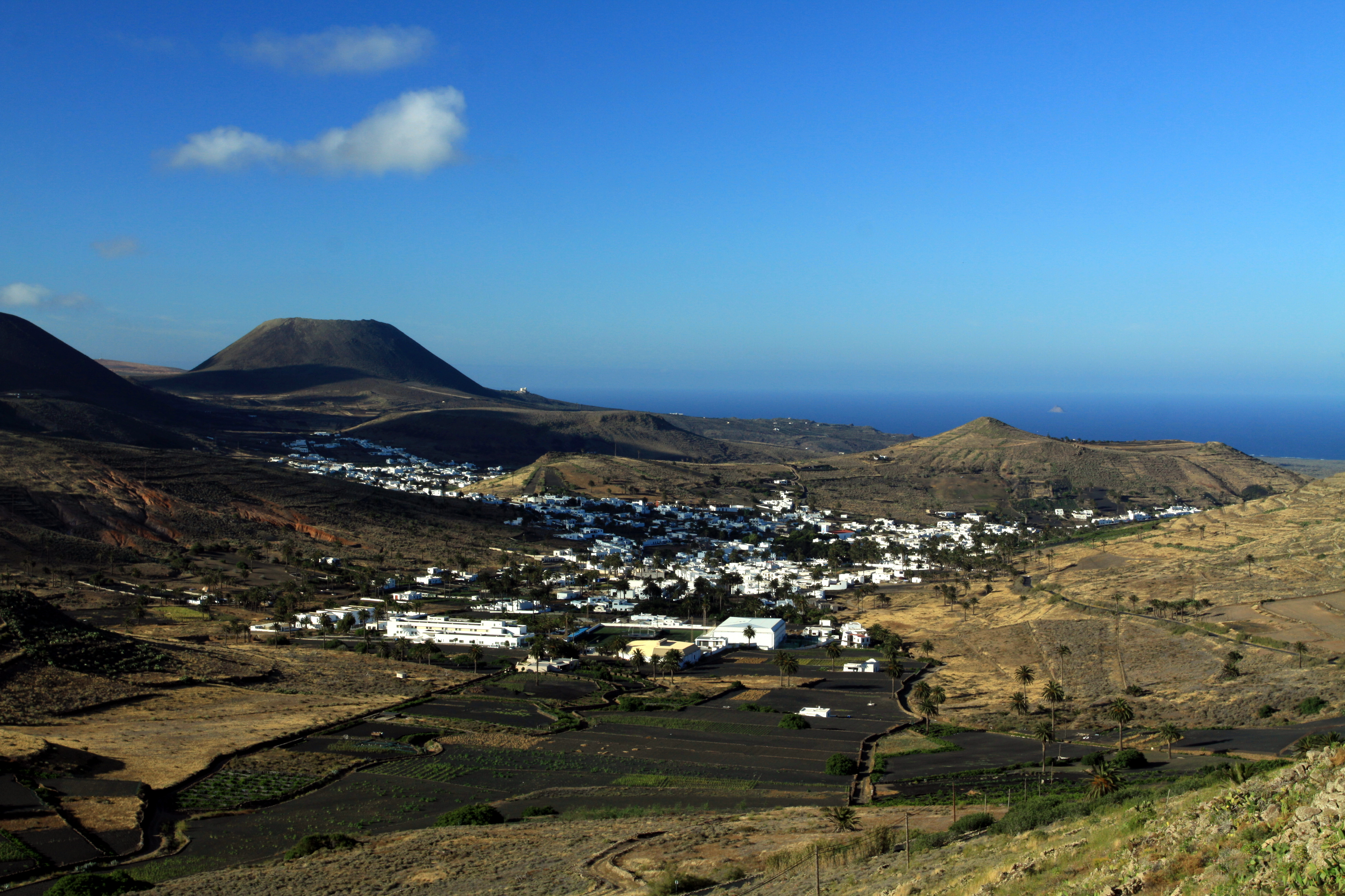 Haría with Monte Corona on Lanzarote, The Canary Islands, Spain